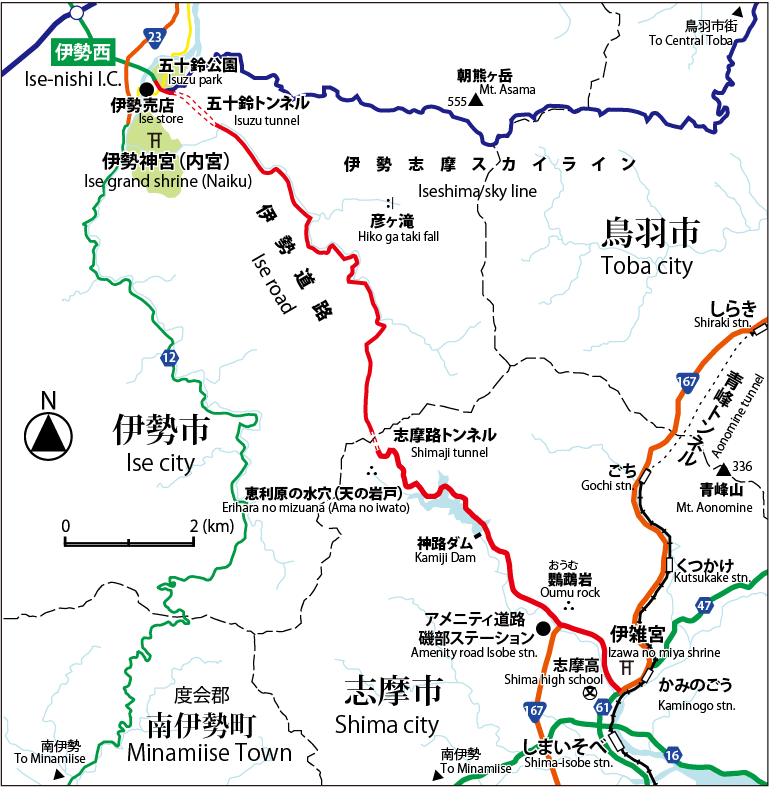 This is a map of Ise Road in 2012. Ise Road connects City of Ise and City of Shima. It is a part of Mie prefectural road No.32 Ise-Isobe line.